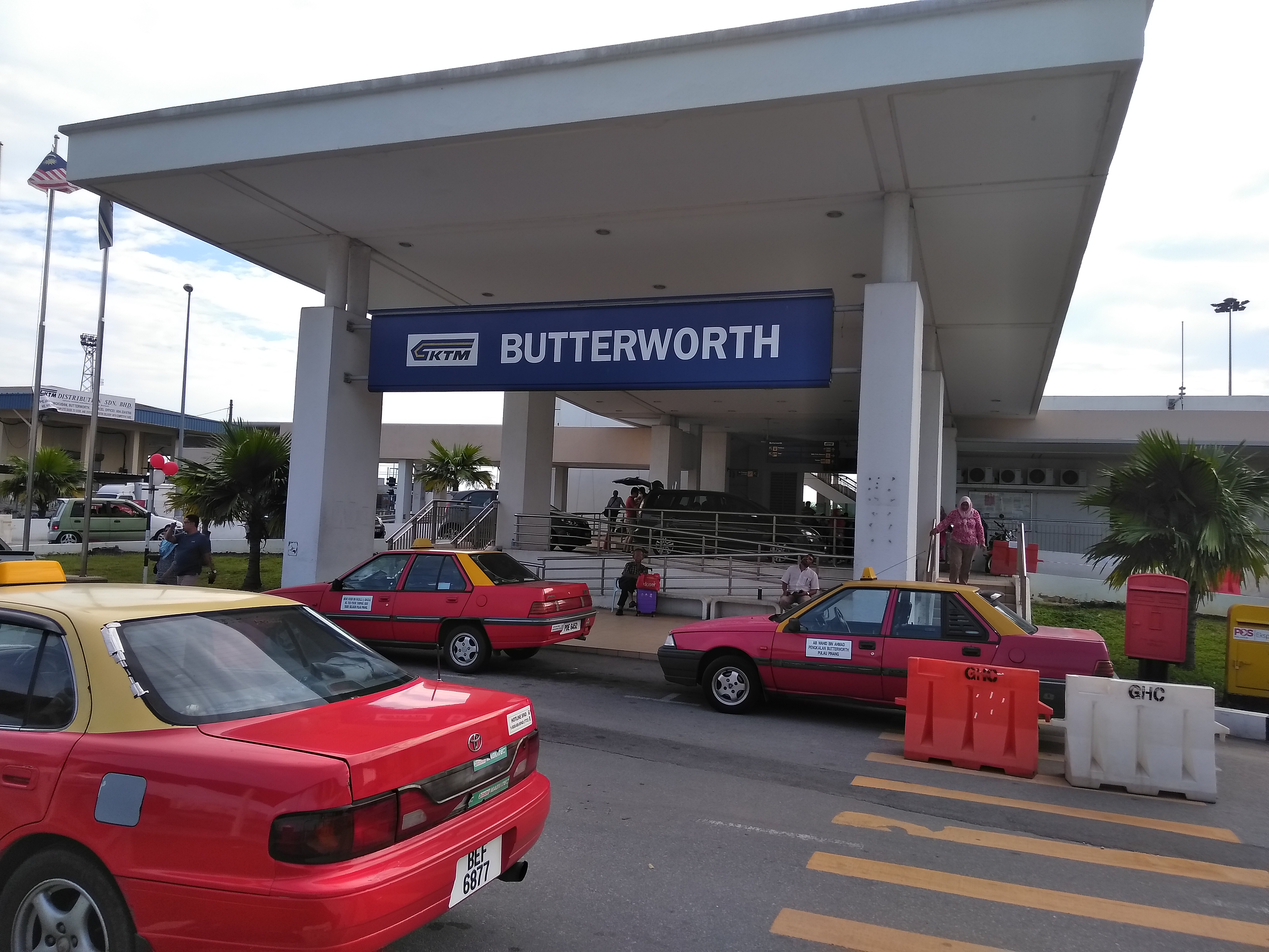 Butterworth Railway Station